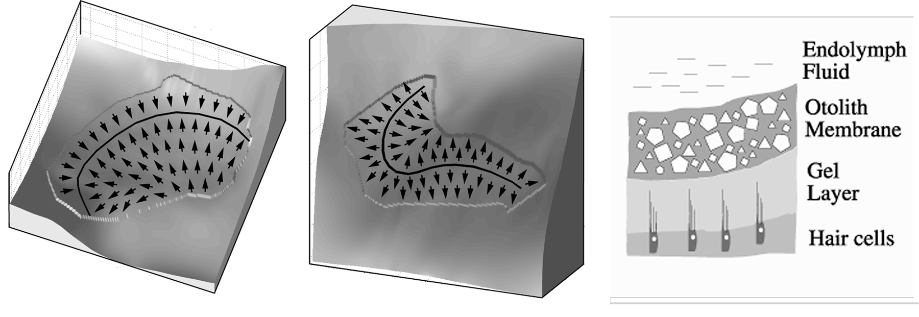 The otoliths are the human sensory organs for linear acceleration. The utricle (left) is approximately horizontally oriented; the saccule (center) lies approximately vertical. The arrows indicate the local on-directions of the hair cells; and the thick black lines indicate the location of the striola. On the right you see a cross-section through the otolith membrane. The graphs have been generated by Rudi Jaeger, while we cooperated on investigations of the otolith dynamics.